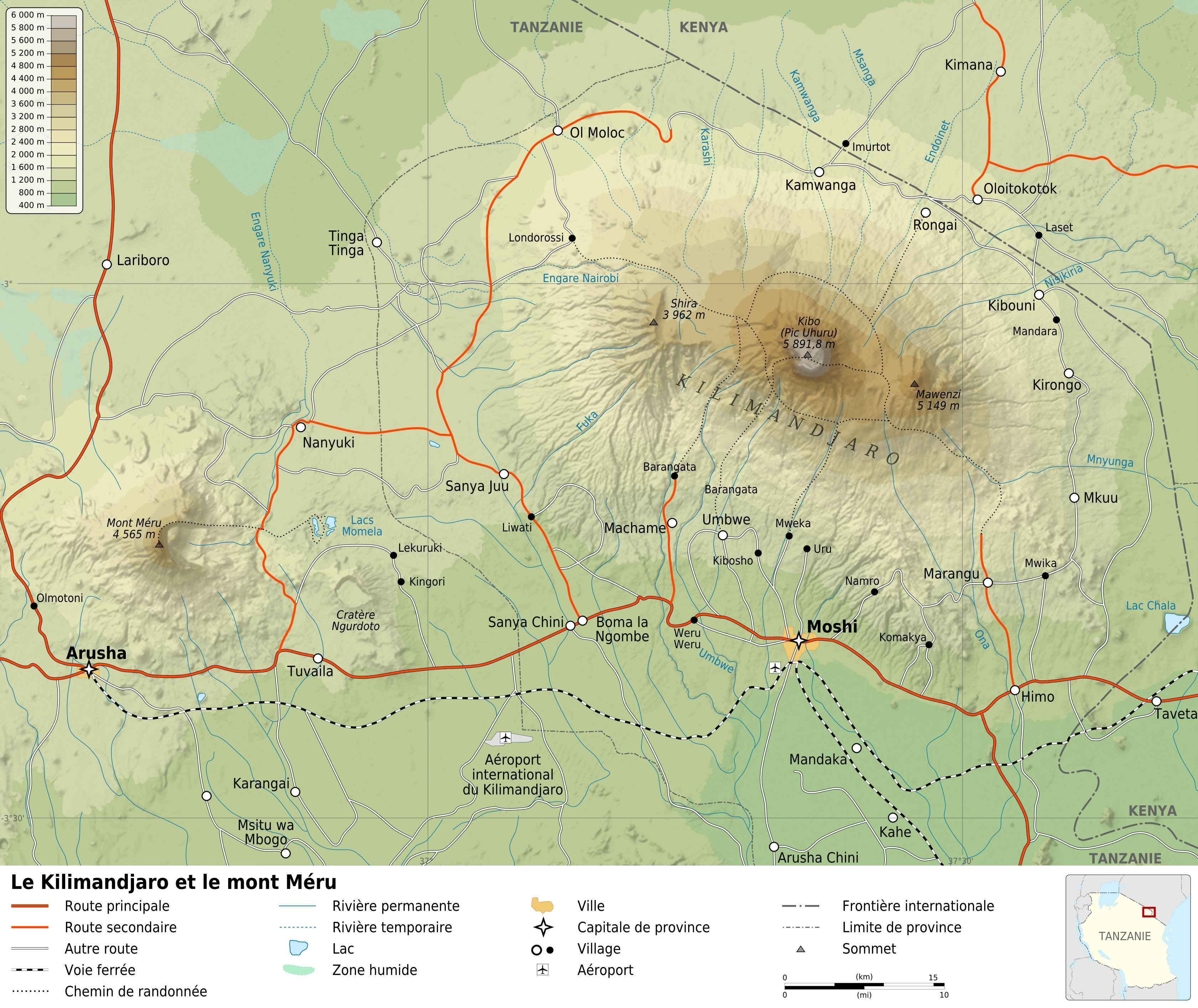 Map of Mount Kilimanjaro and Mount Meru, Tanzania.